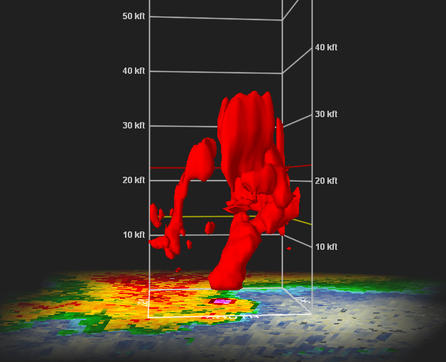 3D Reflectivity view of a tornadic supercell near Vilonia, Arkansas